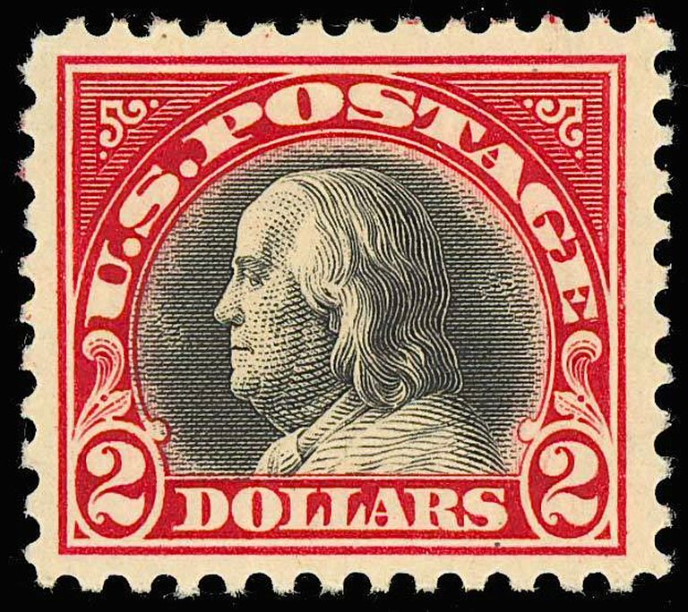 US Postage stamp, Washington-Franklin issue of 1920, $2, carmine & black.Stamp image of Benjamin FranklinReprint of the $2 orange & black 1918 issue.